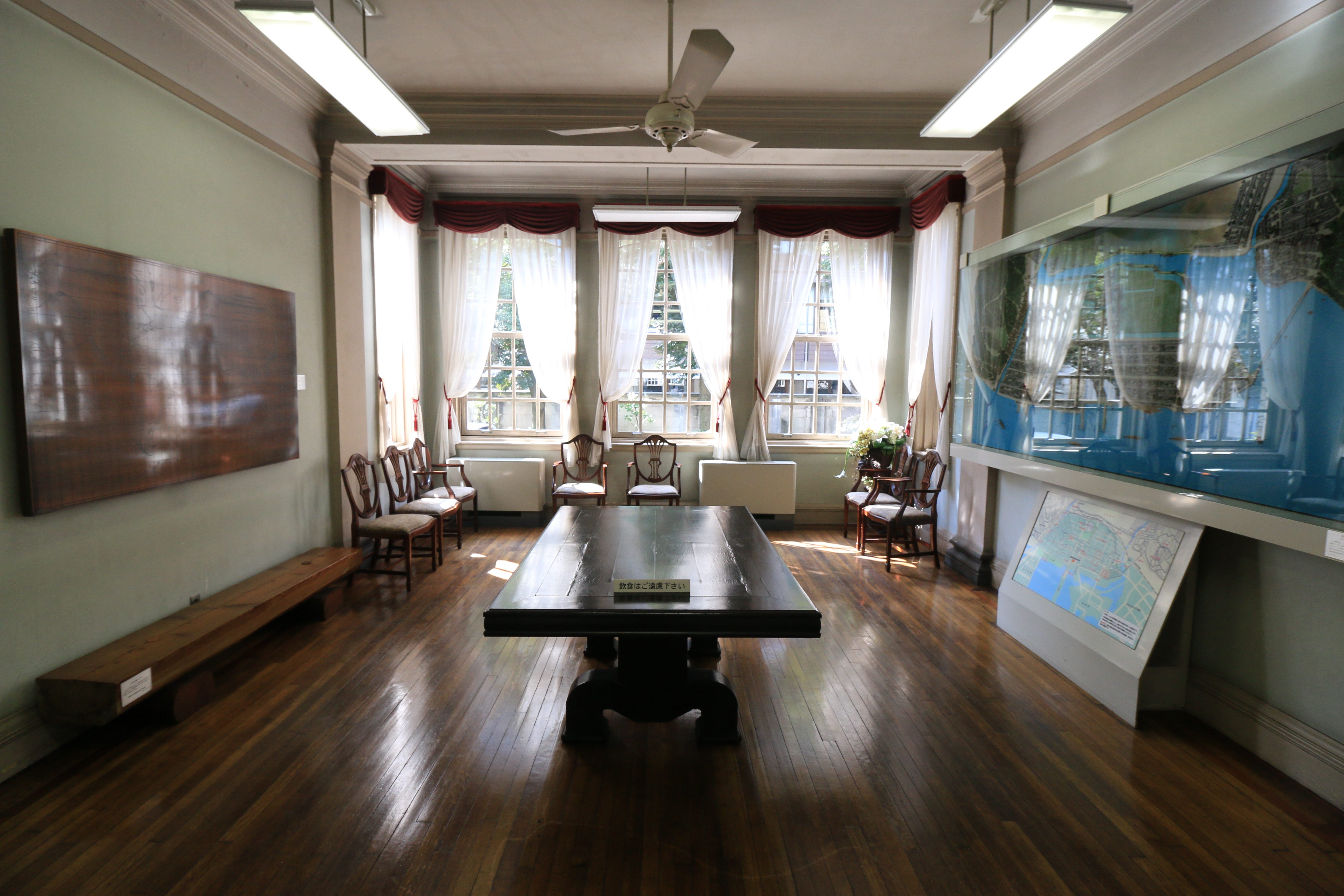 a room of the old building at Yokohama Archives of History